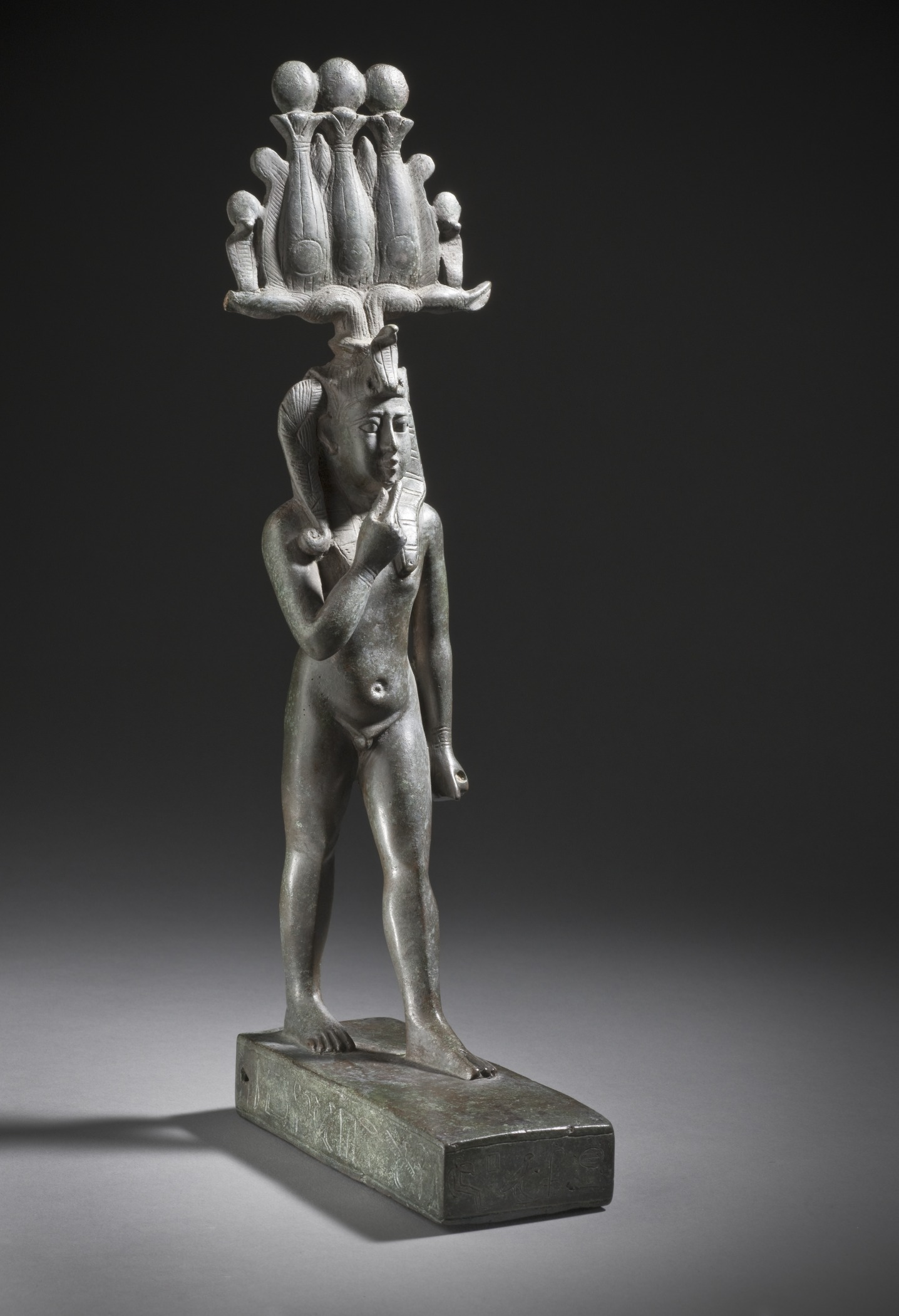 Egypt, Late Period, 712-332 B.C. Sculpture Bronze Gift of Varya and Hans Cohn (AC1992.152.54) Egyptian Art Currently on public view: Hammer Building, floor 3